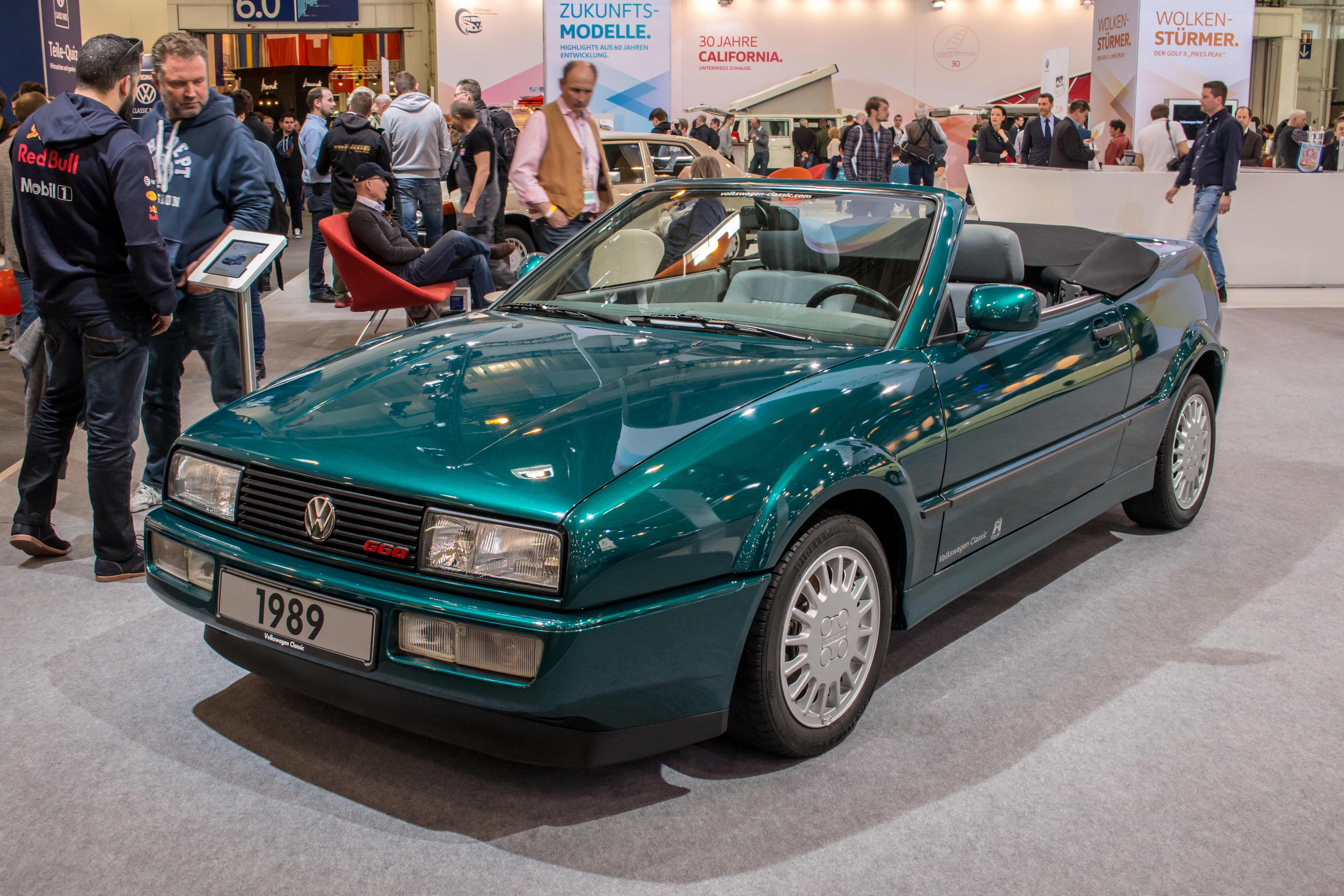 Techno-Classica 2018, Essen